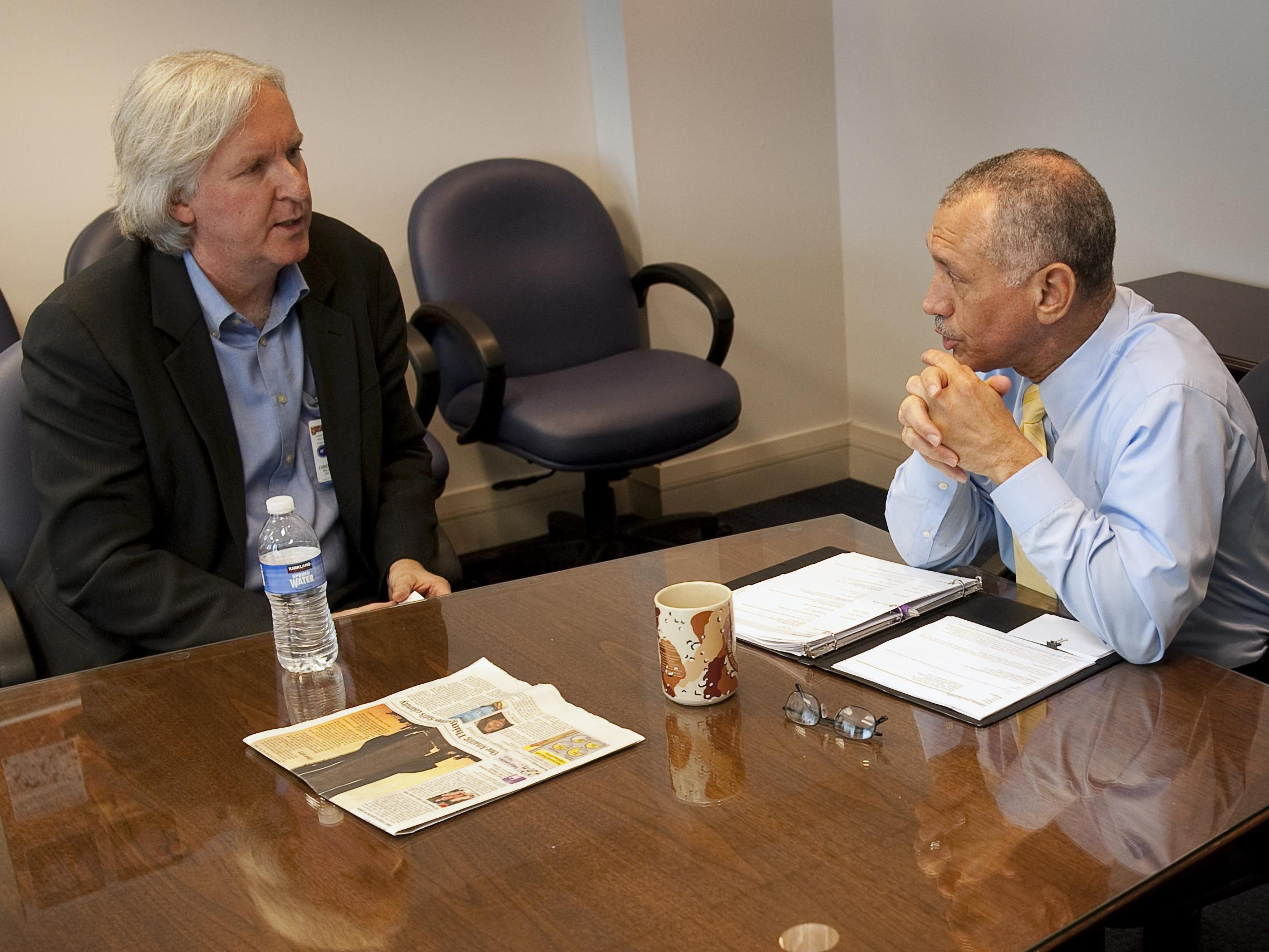 NASA Administrator Charles Bolden, right, and award-winning writer-director James Cameron, meet at NASA Headquarters in Washington, DC. Cameron, who is a former member of the NASA Advisory Council, has had a life-long interest in space and science. The two talked about public outreach and education among other subjects.